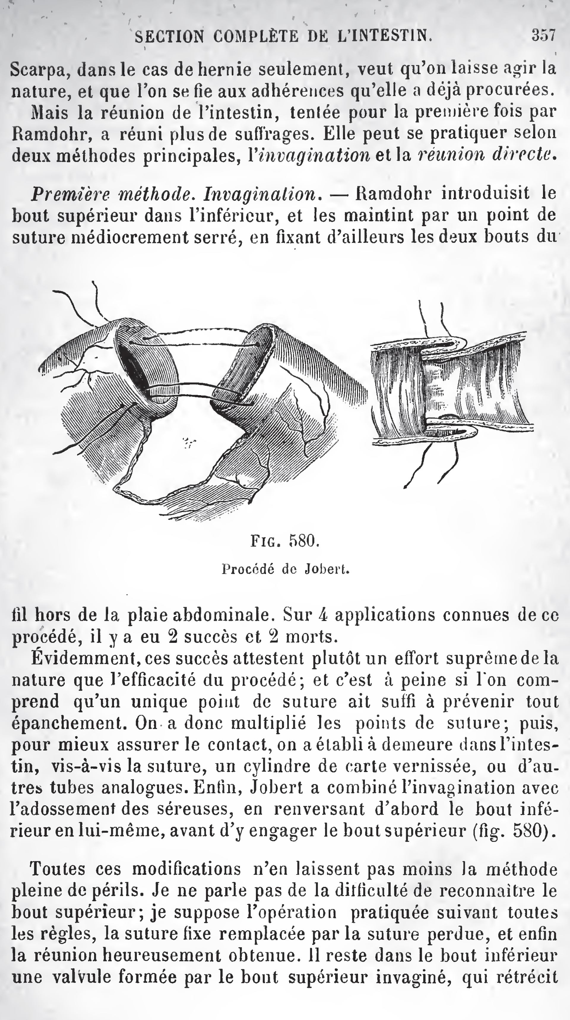 Intestinal sutura acc. to Ramdohr, improved by Jobert